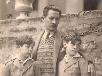 family photo of grandfather